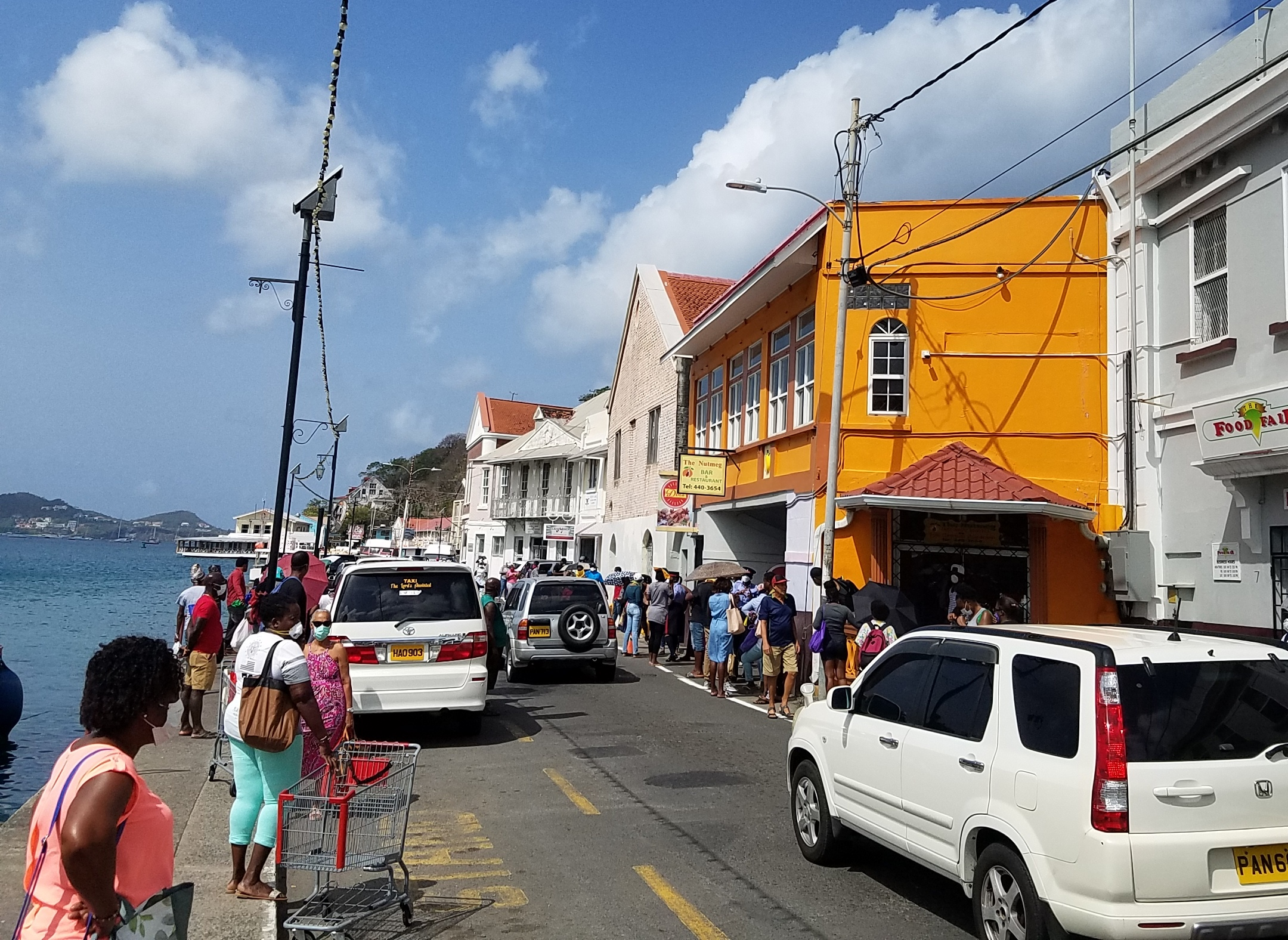 People lining up to shop at Food Fair in St. George's, Grenada during the COVID-19 Pandemic